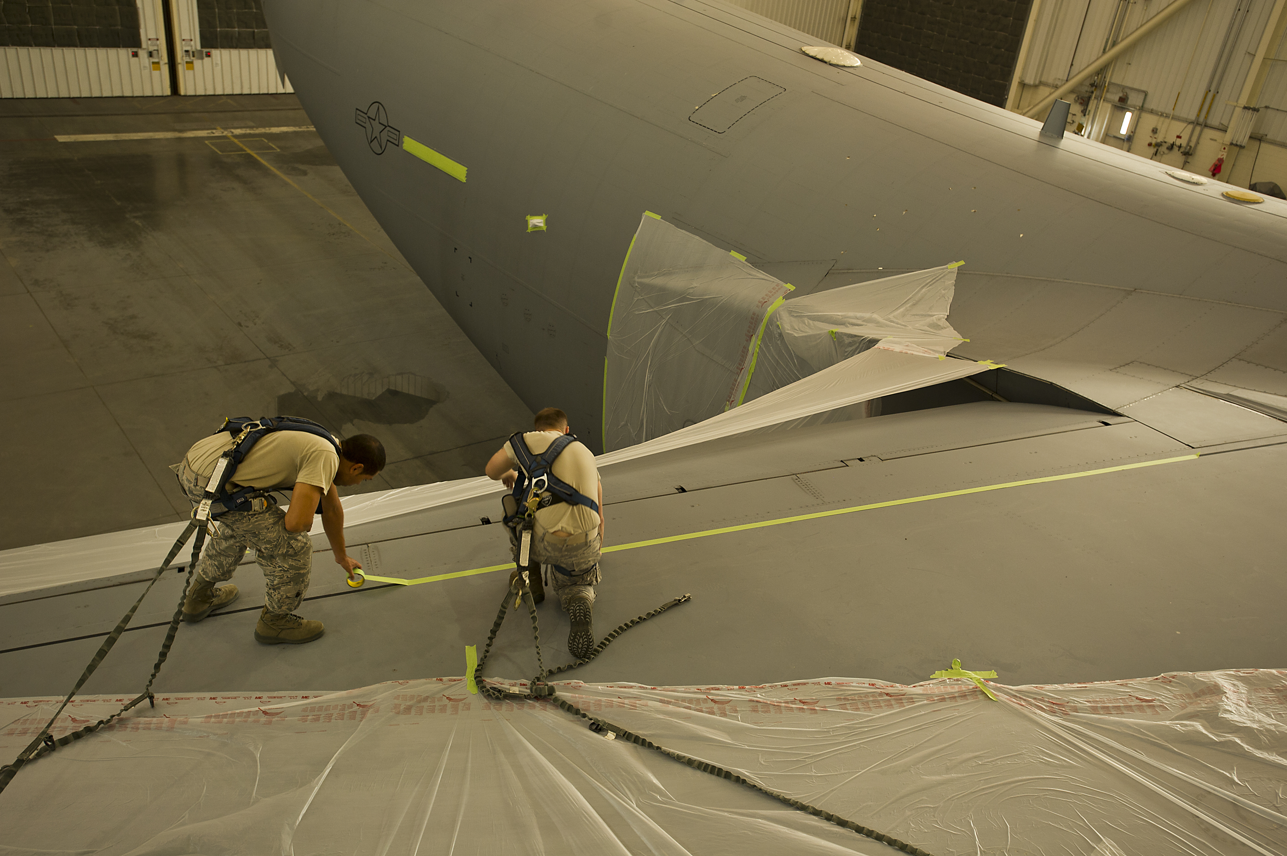 U.S. Air Force Senior Airman Ken Spruell and Airman 1st Class Justin Marcum, 437th Maintenance Squadron aircraft metals technology specialists, Joint Base Charleston, S.C., mask parts of a C-17 Globemaster III before being painted at JB Charleston - Air Base, S.C., May 9, 2012. The airmen mask parts of the C-17 to prevent them from being painted with the rest of the plane.